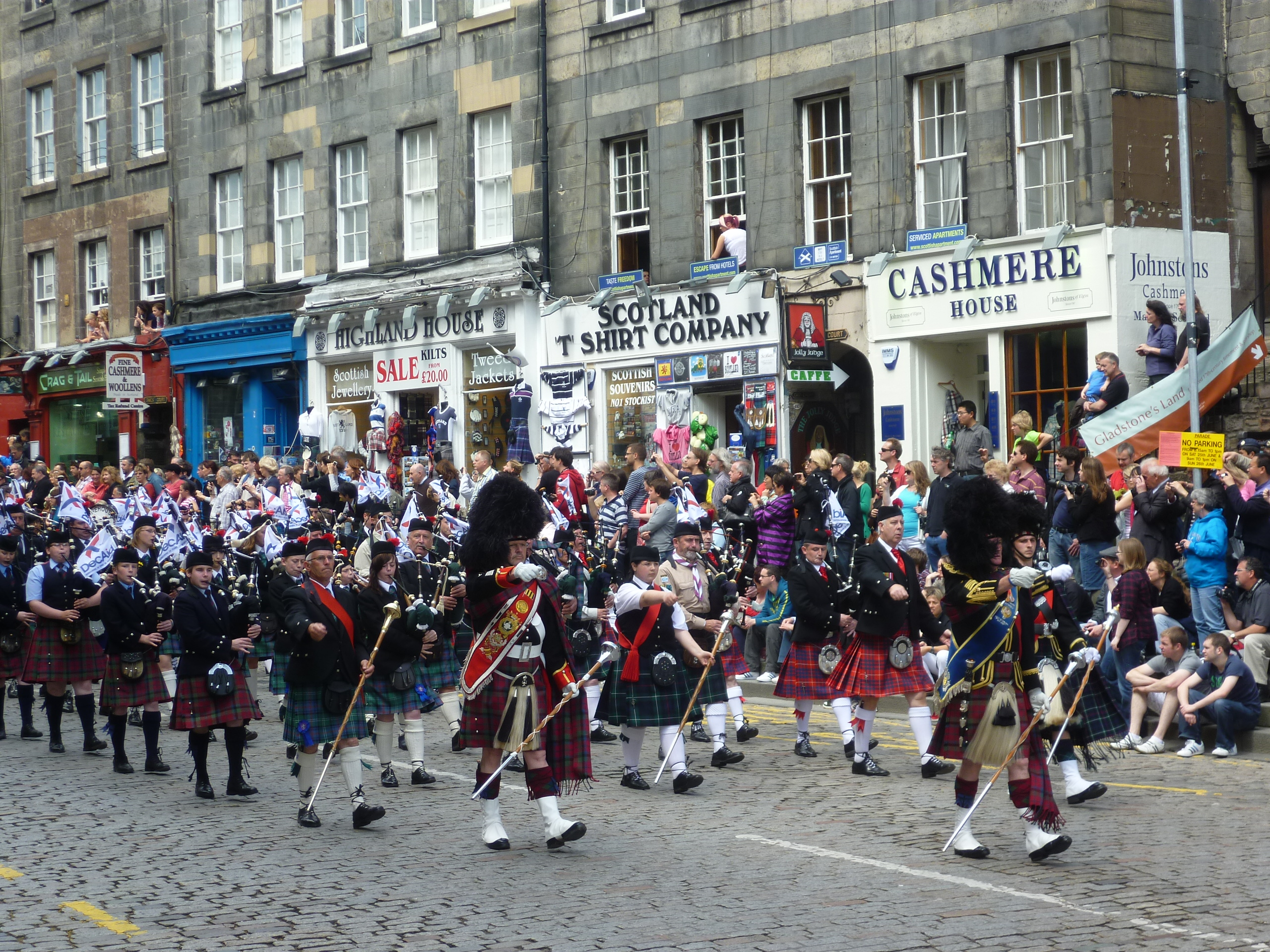 Part of a parade held in connection with Armed Forces Day which the city hosted in 2011.